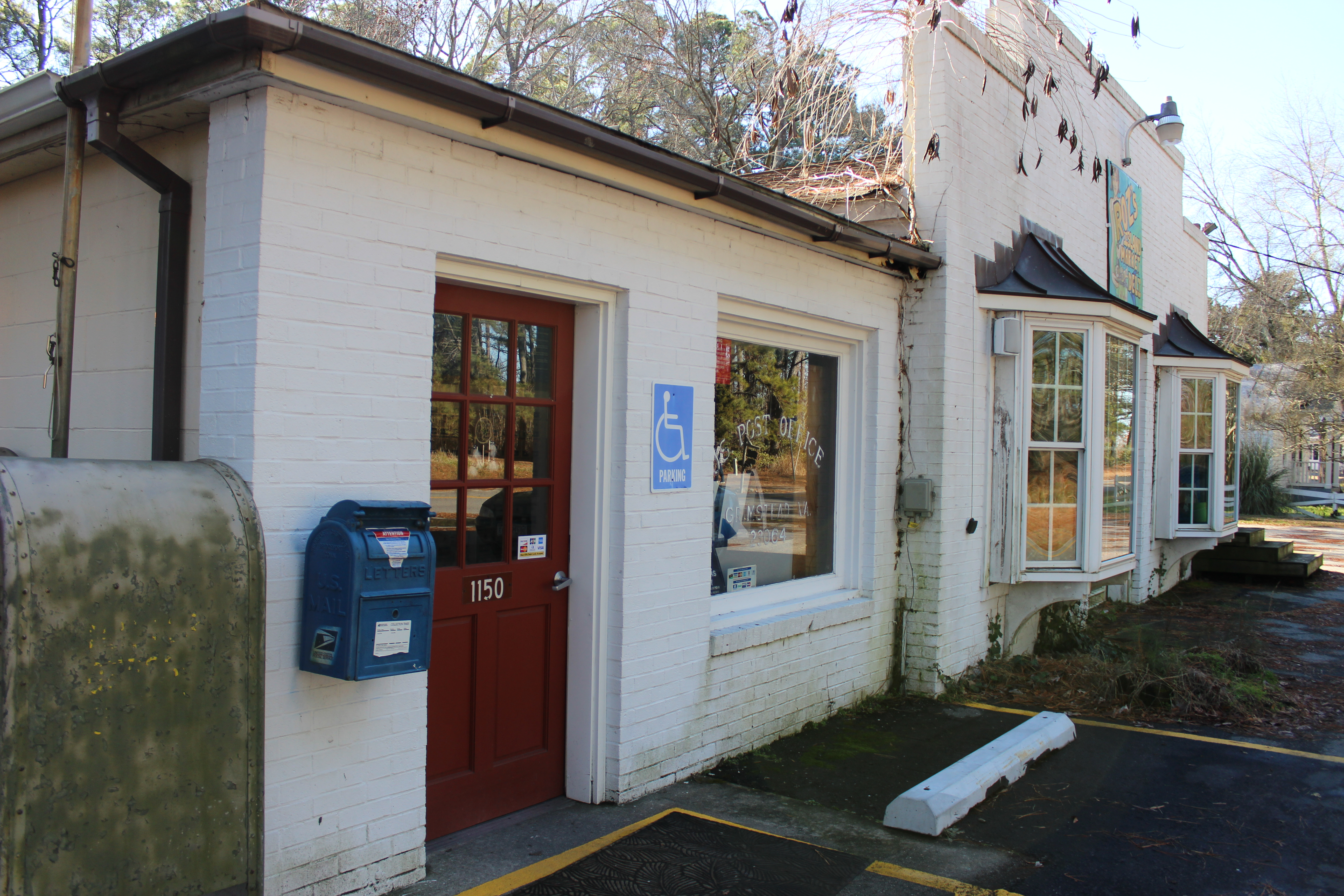 This is a U.S. Post Office, located at 1150 Old Ferry Rd, Grimstead, VA on Gwynn's Island. This particular location is located near the Gwynn, VA P.O. and is nearly identical inside other than the size. Next to Roz's Island Market and Deli, which does not appear to currently be in business.